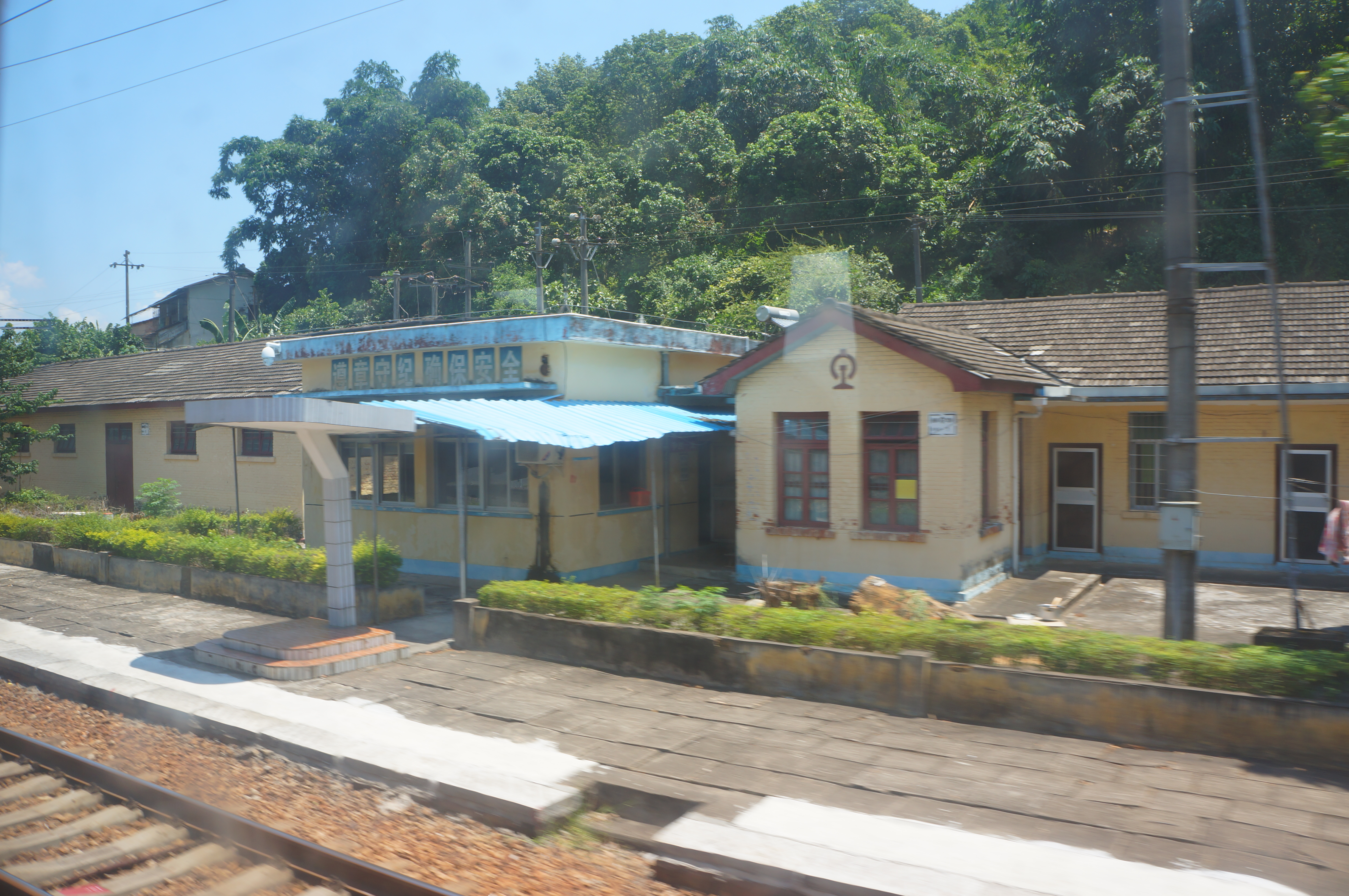 Li Chui Station. Next Station, Go Soa.